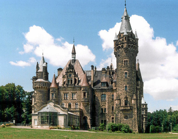 Castle Moszna (near Opole) in Poland